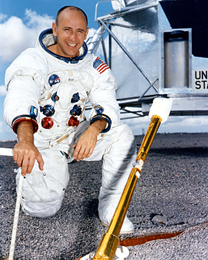 I uploaded this NASA picture for use in the article on Alan Bean. It was taken from his NASA bio here: -Lommer 01:26, 27 Oct 2004 (UTC)